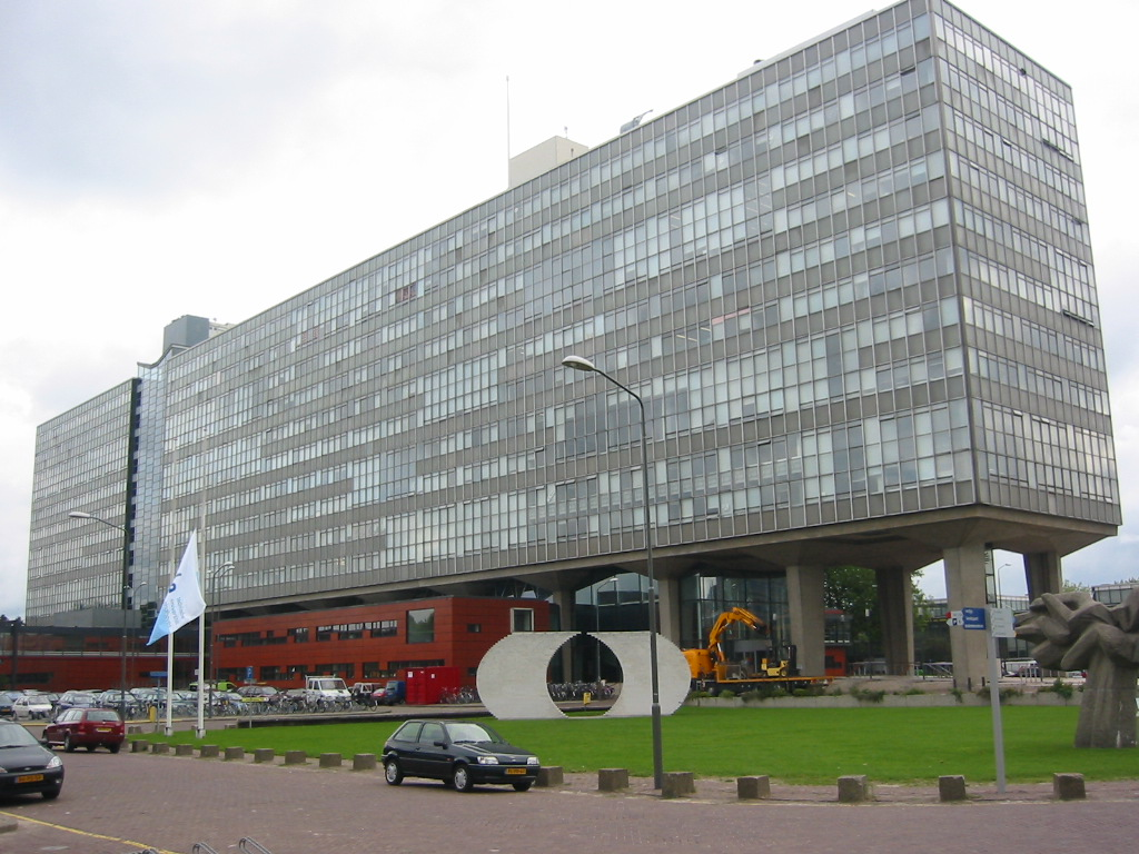 Main Building of the Eindhoven University of Technology